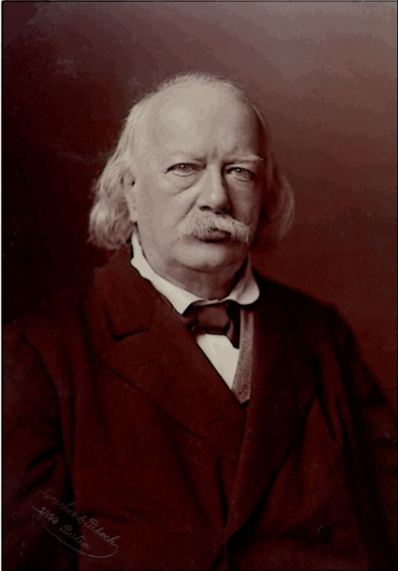 Albrecht Weber, orientalist, 1899